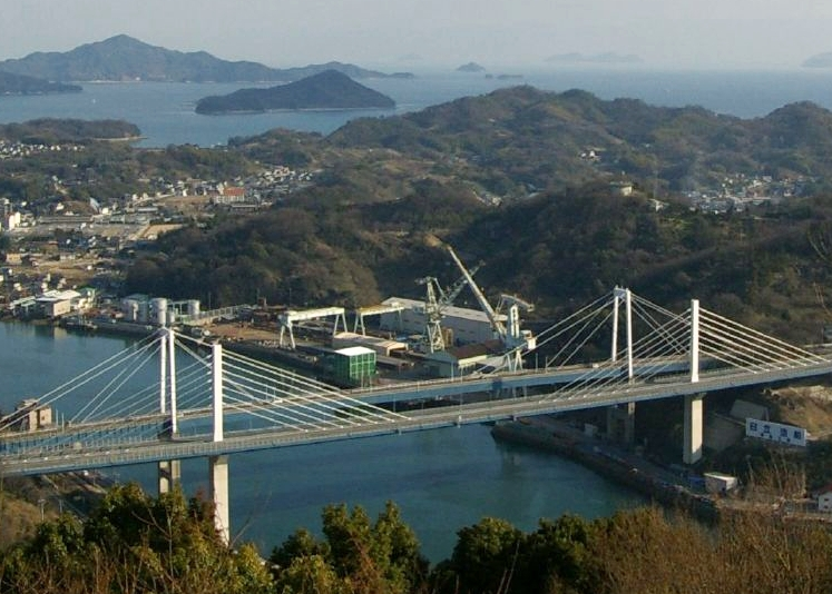 The Onomichi Bridge